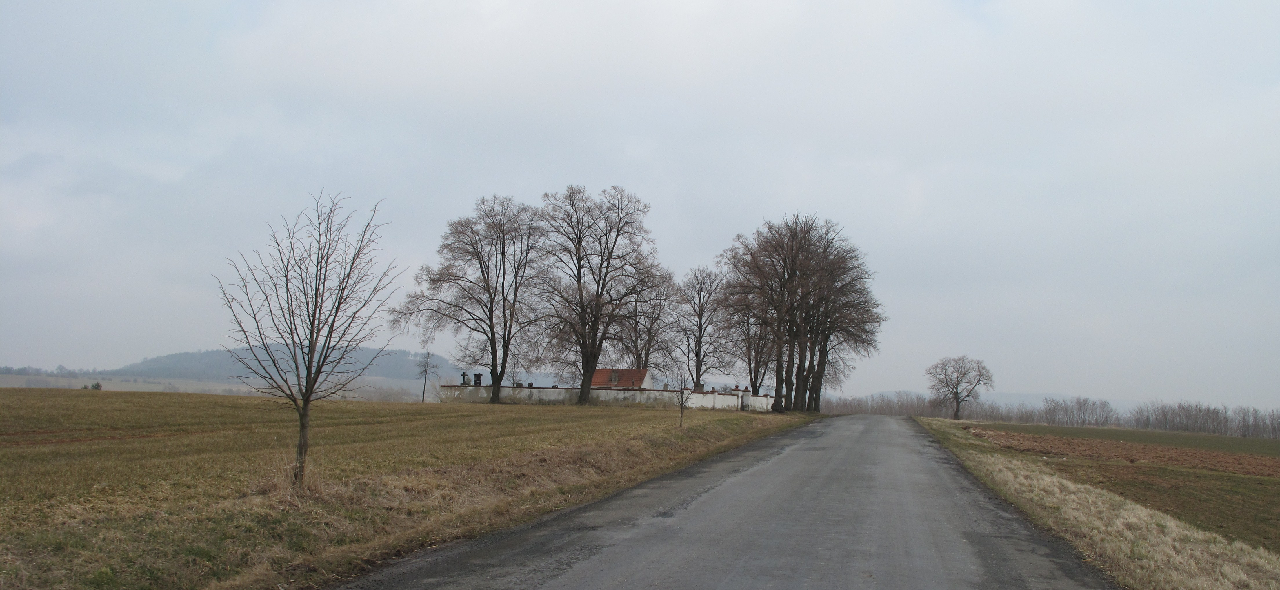 Cemetery in Janov village, Rakovník District, Czech Republic.